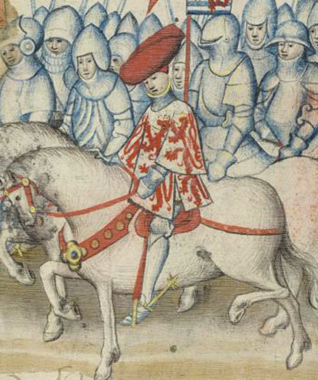 Duke of Limburg riding